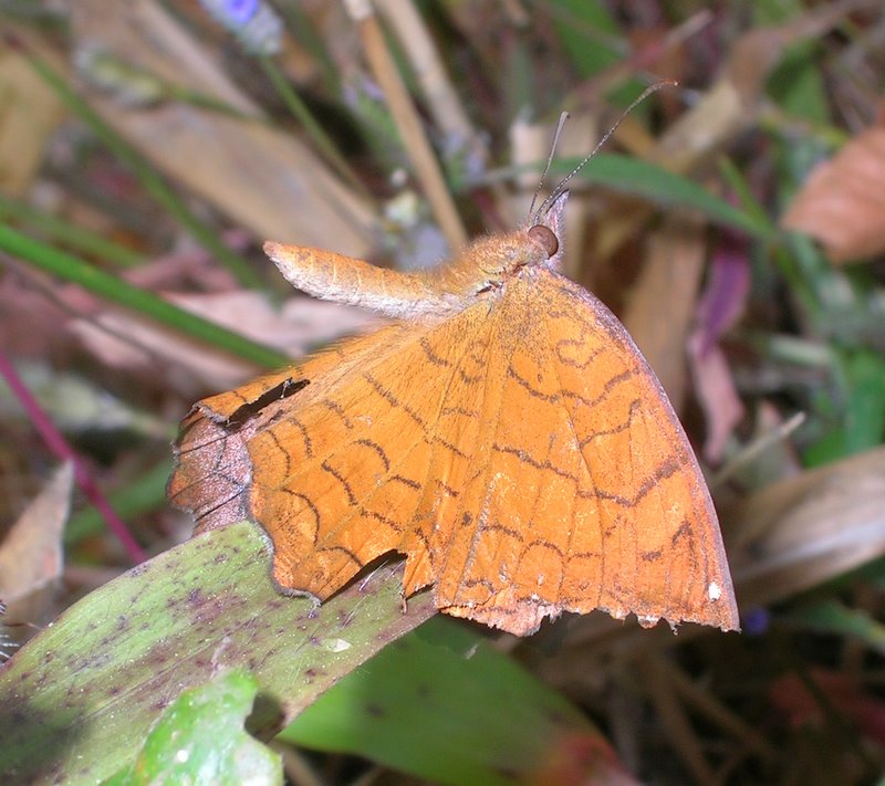 Angled Castor Ariadne ariadne from Dandeli, taking off